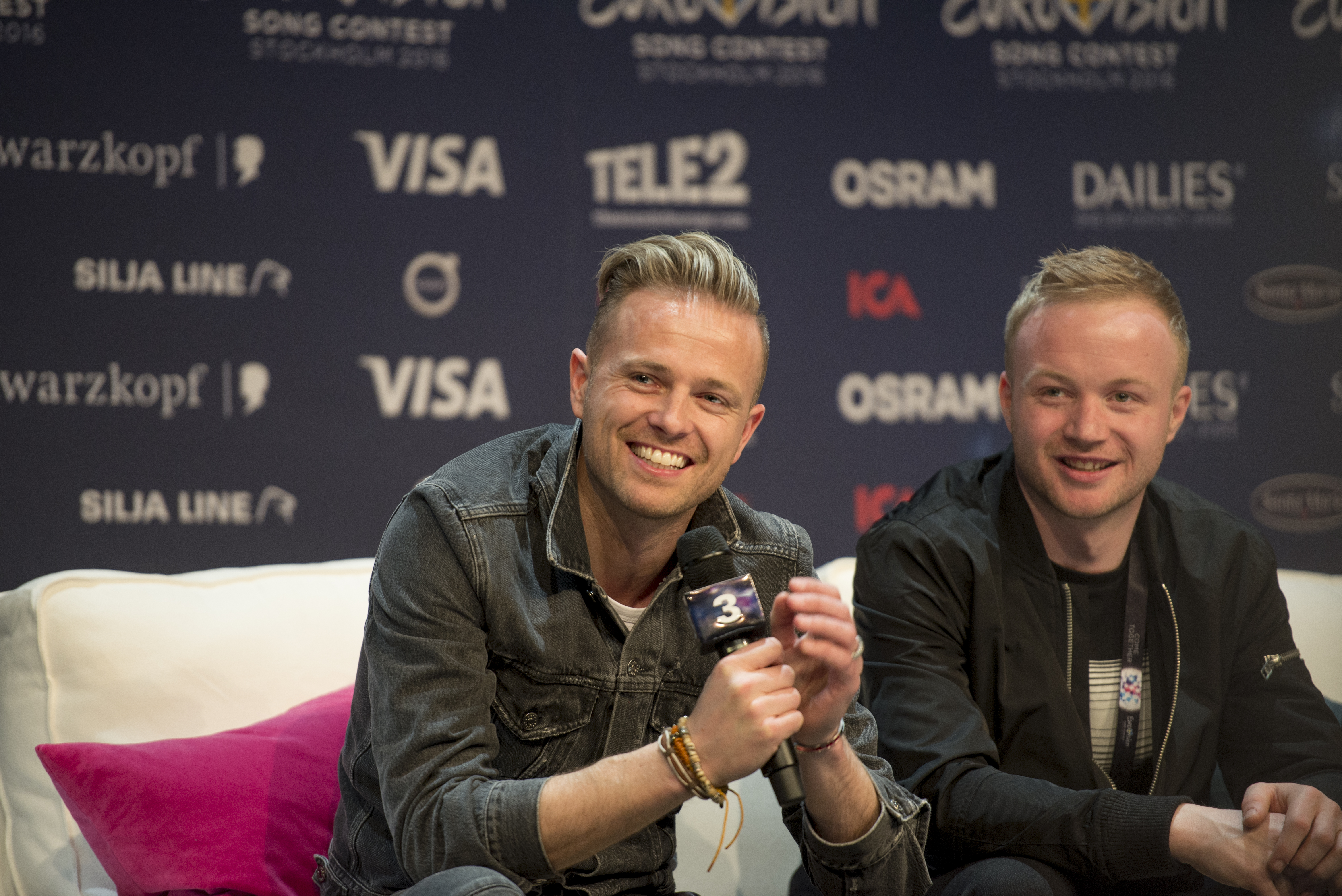 Nicky Byrne at a Meet & Greet during the Eurovision Song Contest 2016 in Stockholm. (Help translate this text)